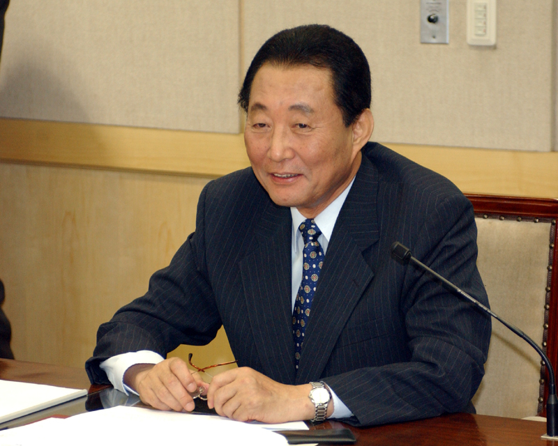 서울특별시 소방재난본부 소장 사진.photos of Seoul Metropolitan Fire&Disaster Headquarters.